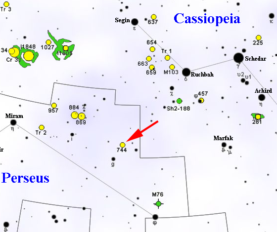 Map of NGC 744